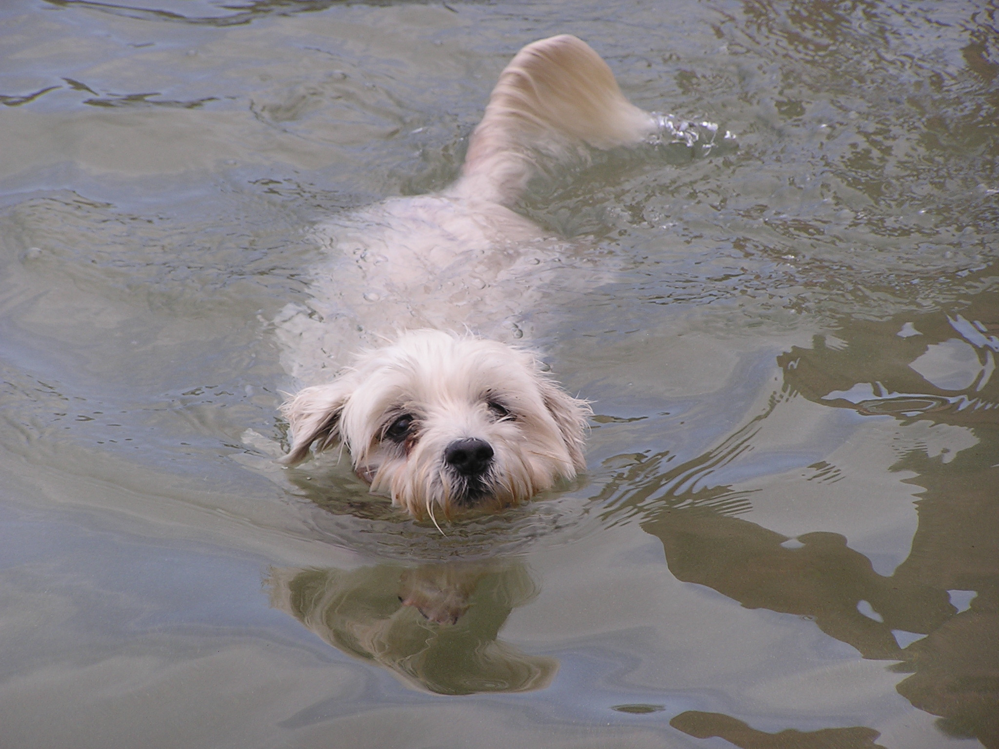 Otto dog-paddling Removed from the following pages: Dog paddle swimming --OrphanBot 02:56, 22 May 2006 (UTC) tagged as cc-by sa!